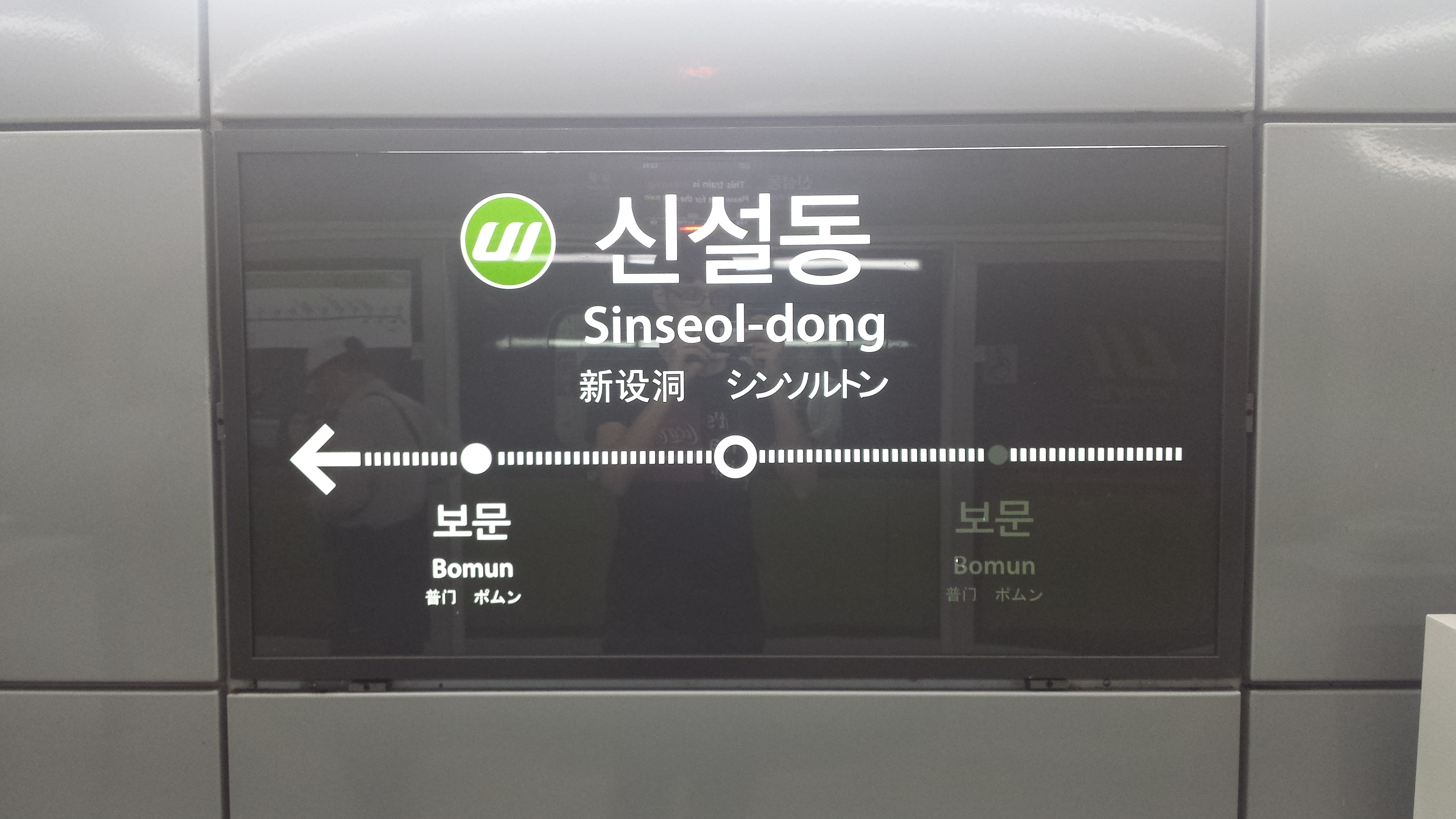 Sinseol-dong station sign